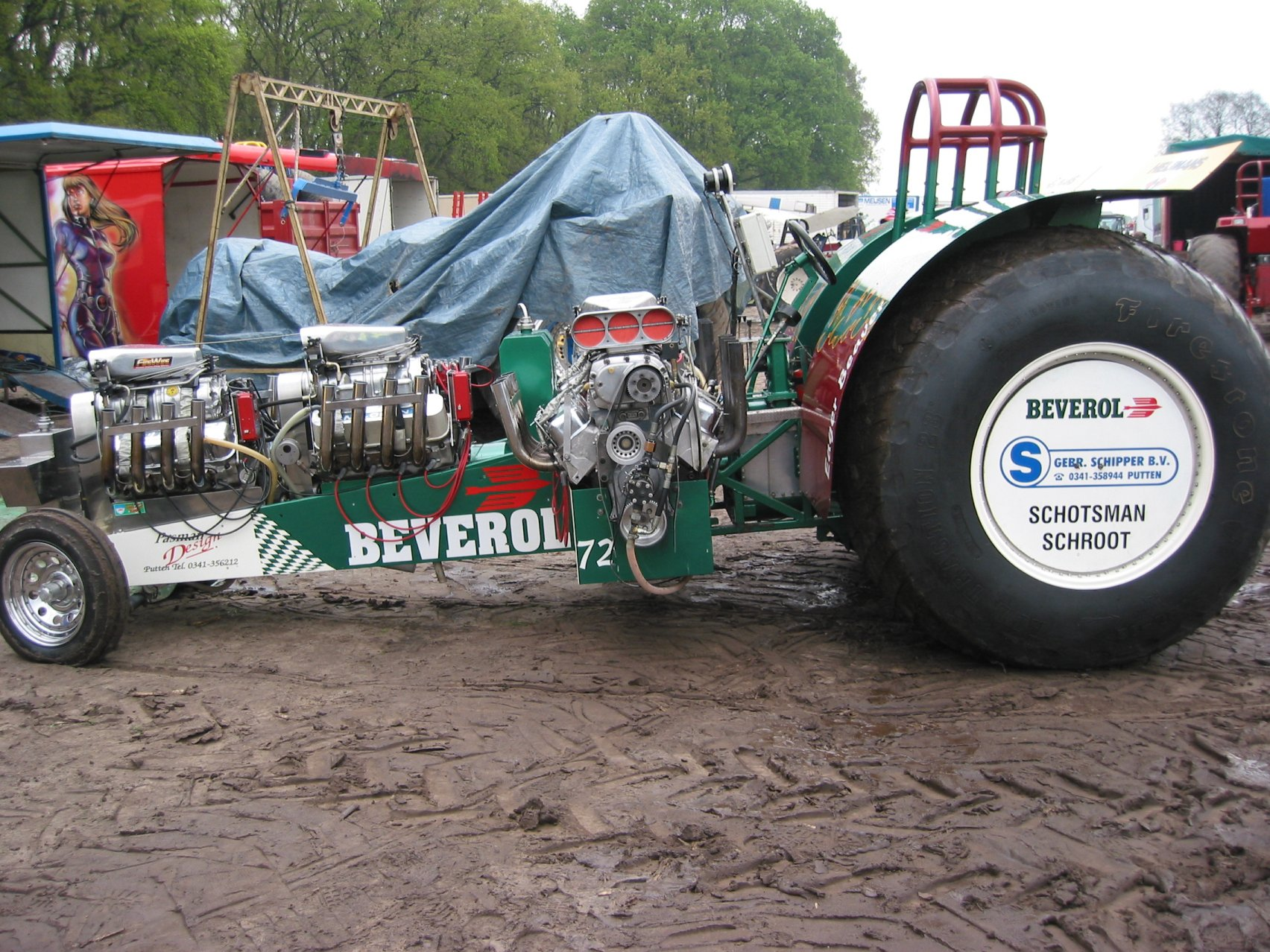 Tractor pulling minitractor